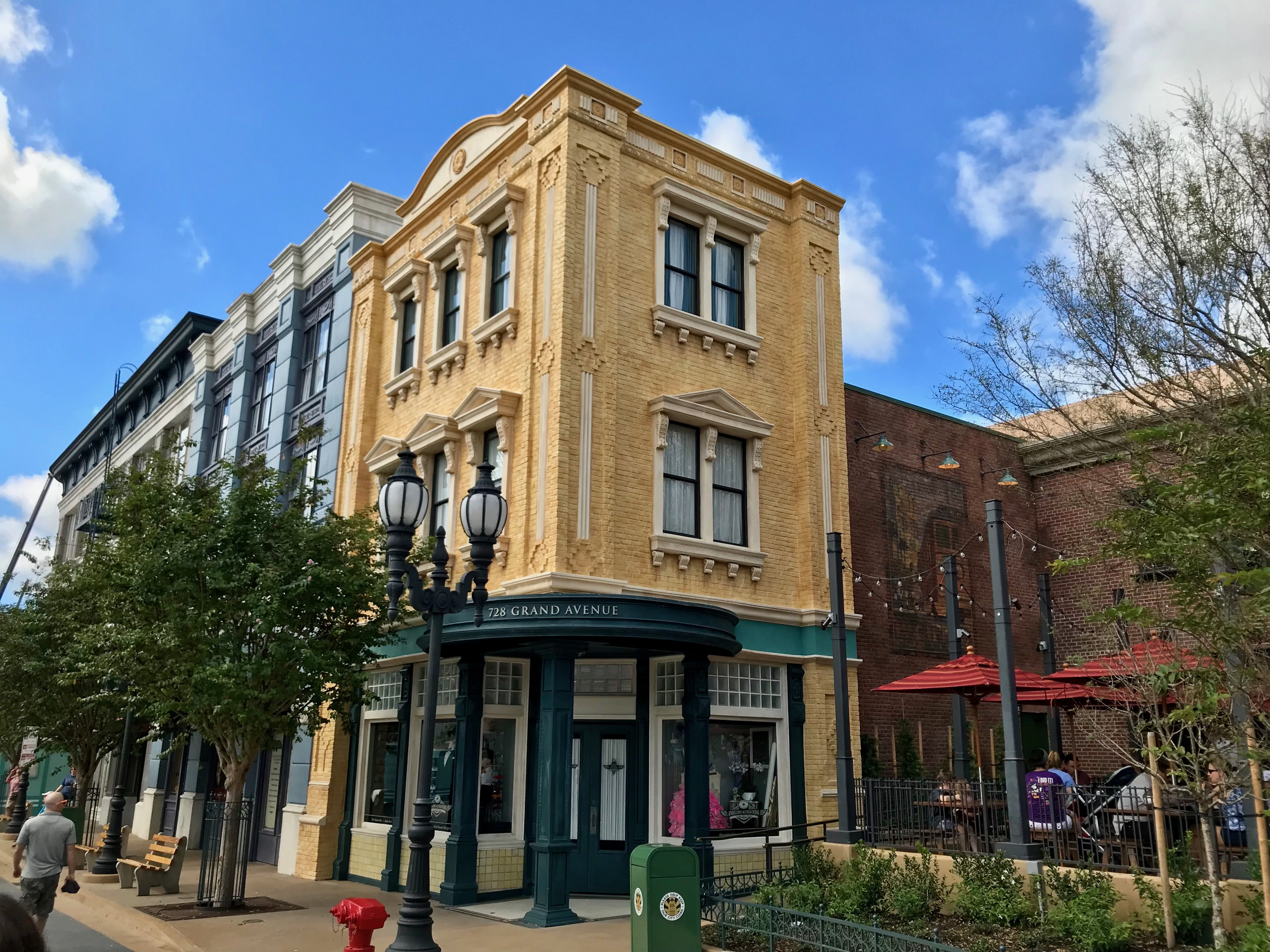 Grand Avenue and BaseLine Tap House at Disney's Hollywood Studios.